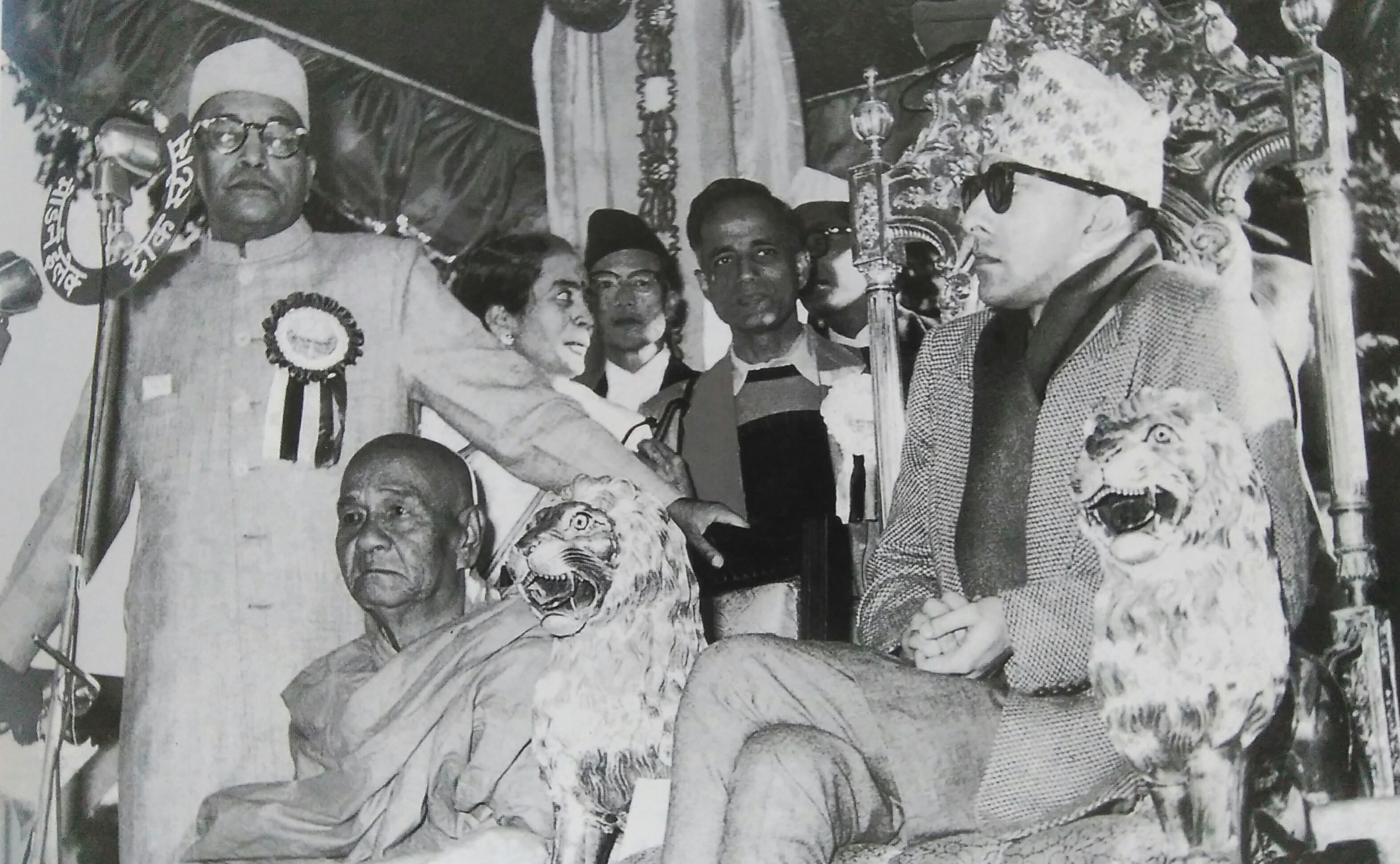 Bodhisattva Dr. Babasaheb Ambedkar delivering his historic speech “The Buddha and Karl Marx” on November 20, 1956 before delegates of the 4th World Buddhist Conference held at Katmandu, Nepal. His Highness the King of Nepal Mahendra, Dr. Mrs. Ambedkar and Bhante Chandramani are also seen. (Dr Ambedkar’s Speech at World Fellowship of Buddhists, Nepal)